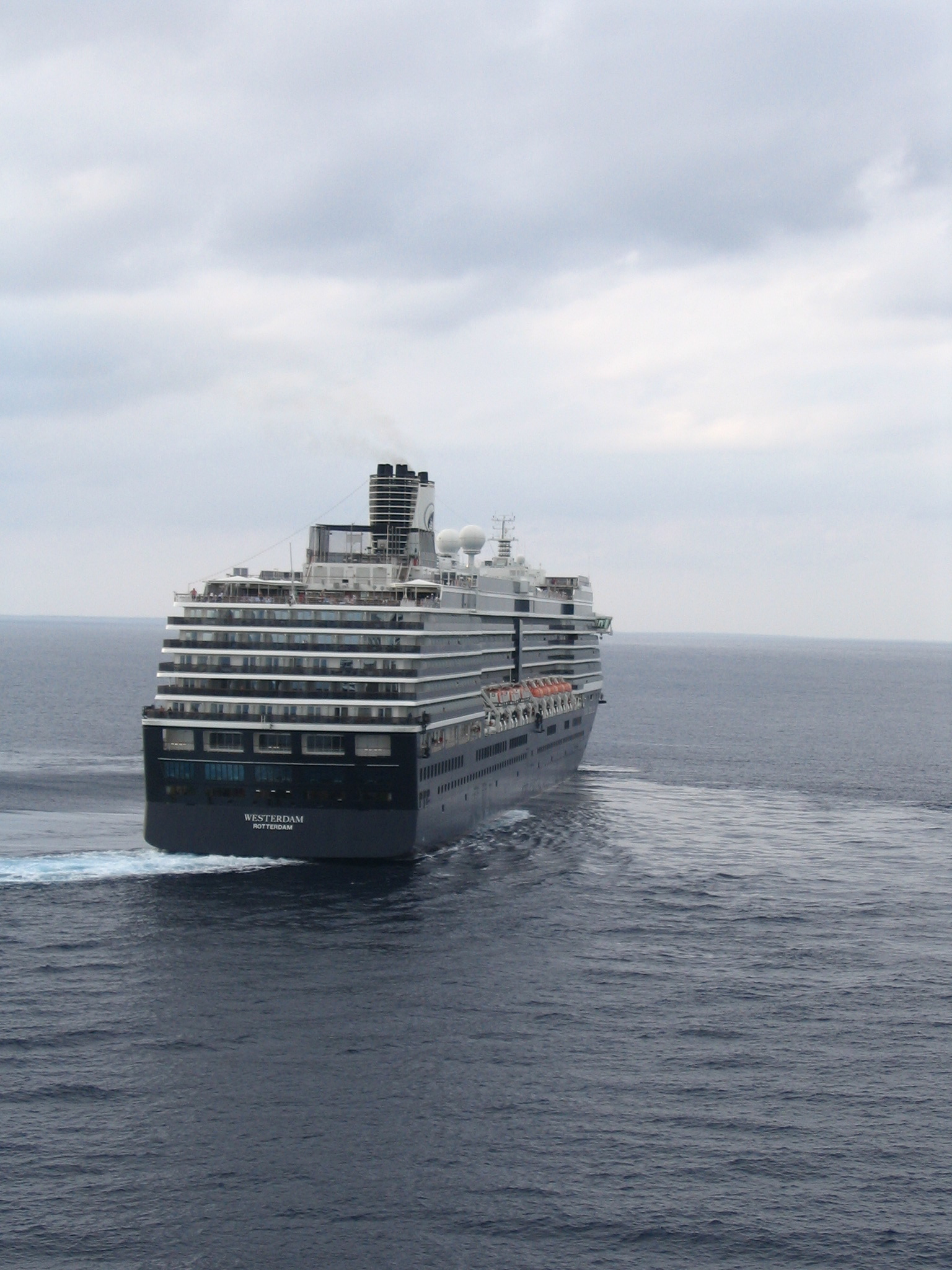 MS Westerdam getting underway from Half Moon Cay, Little San Salvador Island, Bahamas to Port Everglades, Fort Lauderdale, Florida, USA. The Westerdam flies the Dutch flag and bears IMO number 9226891.